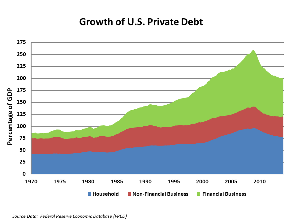 US Private Debt to GDP ratio for Households, Non-Financial Business, and Financial Business. Each is layered, so the highest point represents the sum of all three data series. Other information Based on similar chart in Martin Wolf's book "The Shifts and the Shocks" as described in NYT article "Why Weren't Alarm Bells Ringing".